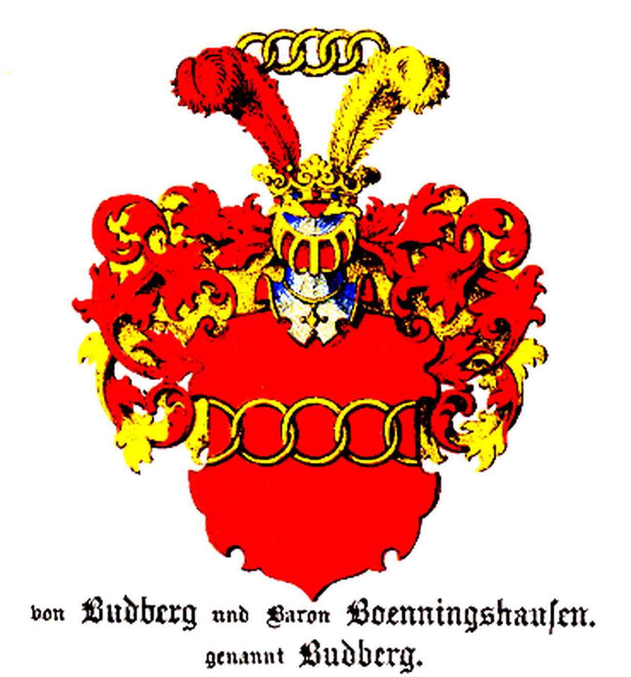 Coat of arms of Budberg family